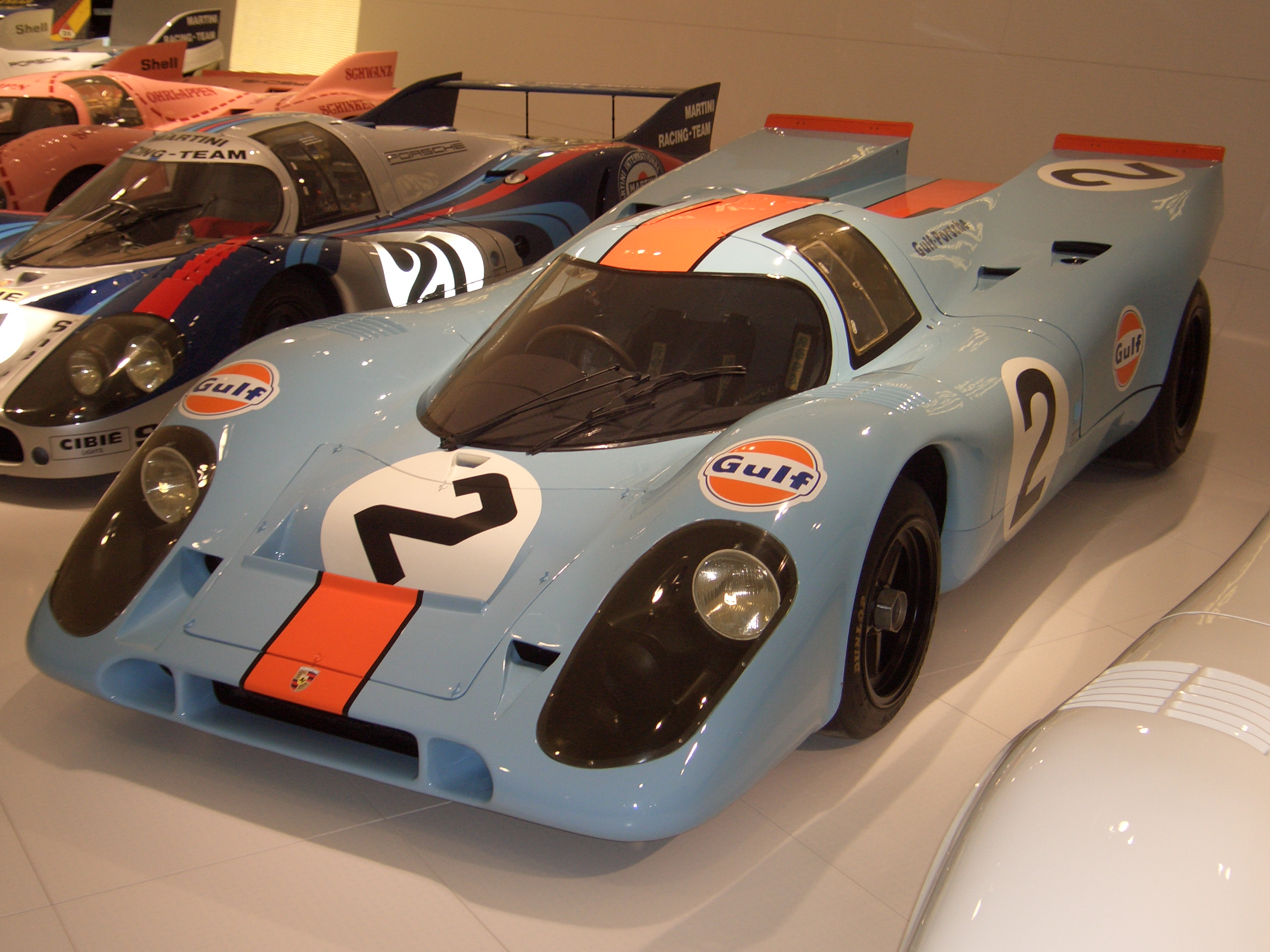 see filename for despcription - seen at PORSCHE MUSEUM in Stuttgart, Germany